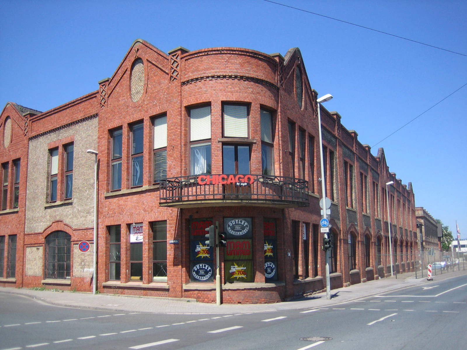 industrial heritage in Mainz-Mombach: building of the former wagon factory Gebrüder Gastell (Gastell Brothers)